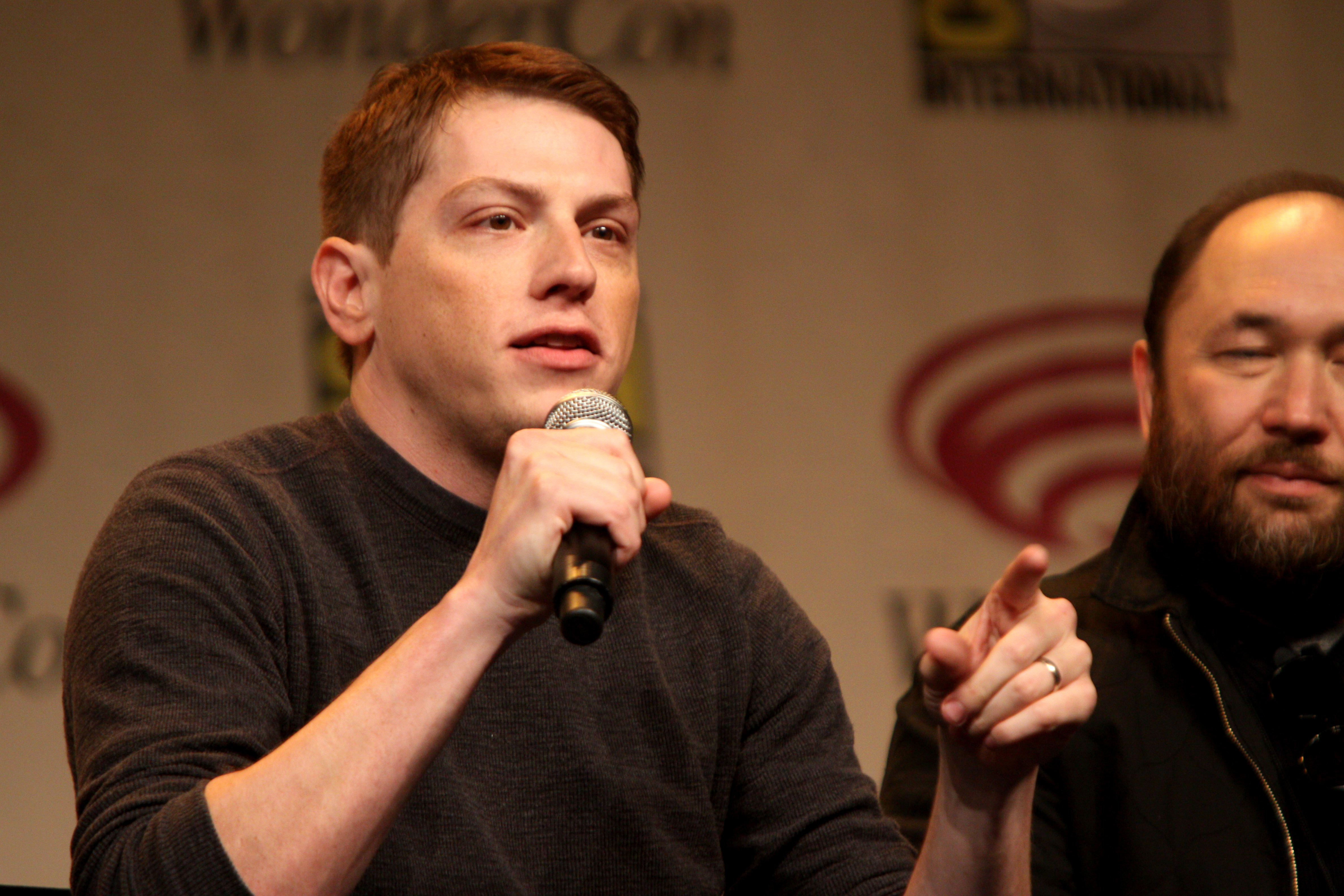 Seth Grahame-Smith speaking at the 2012 WonderCon in Anaheim, California.